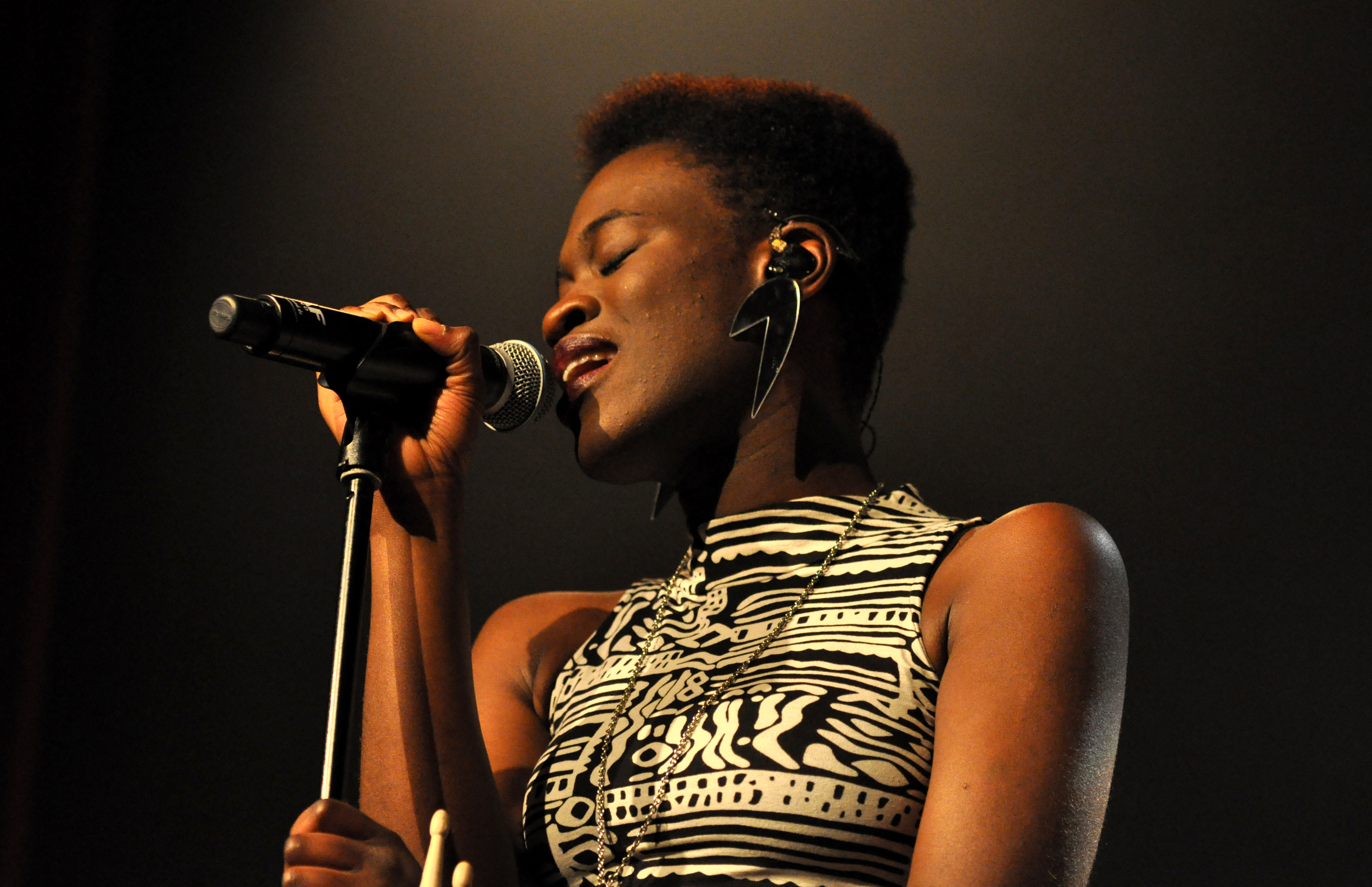 Ivy Quainoo at a concert in Gloria Theater, Cologne, in January 2014